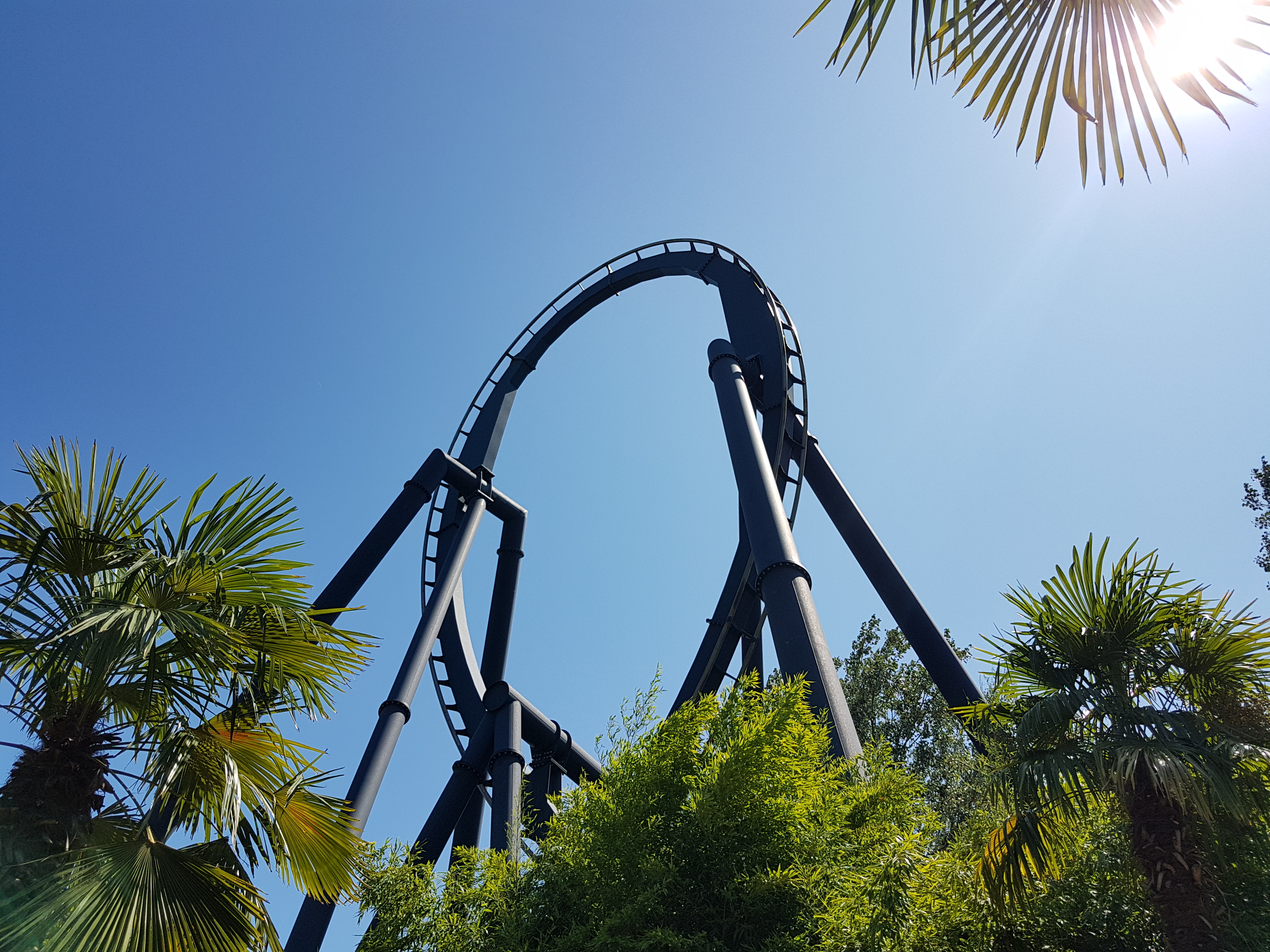 360° wheel of Katun at Mirabilandia